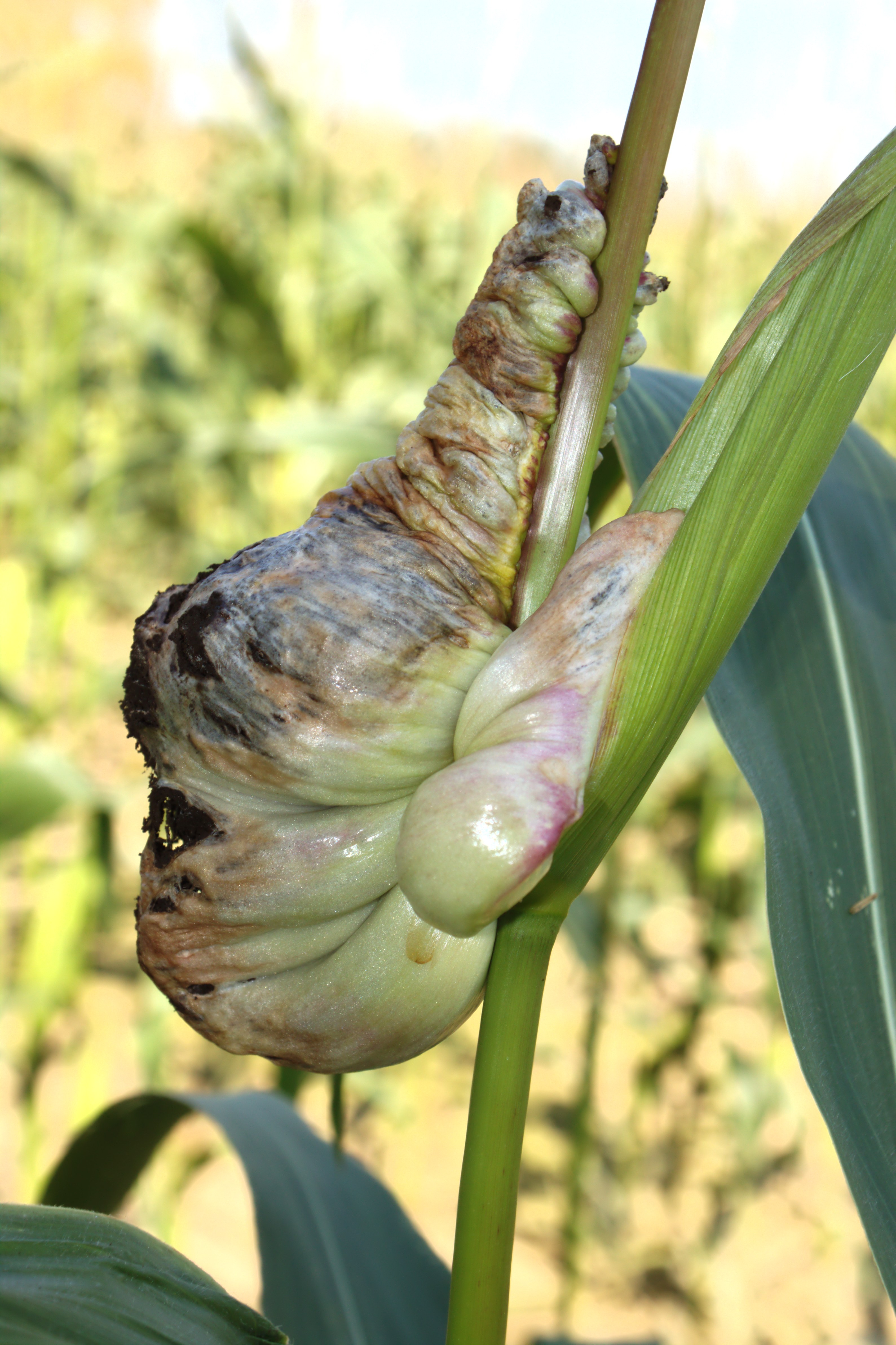 Ustilago maydis on a plant near Úvaly, Prague-East District, CZ